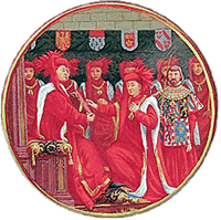 knights of the Golden Fleece